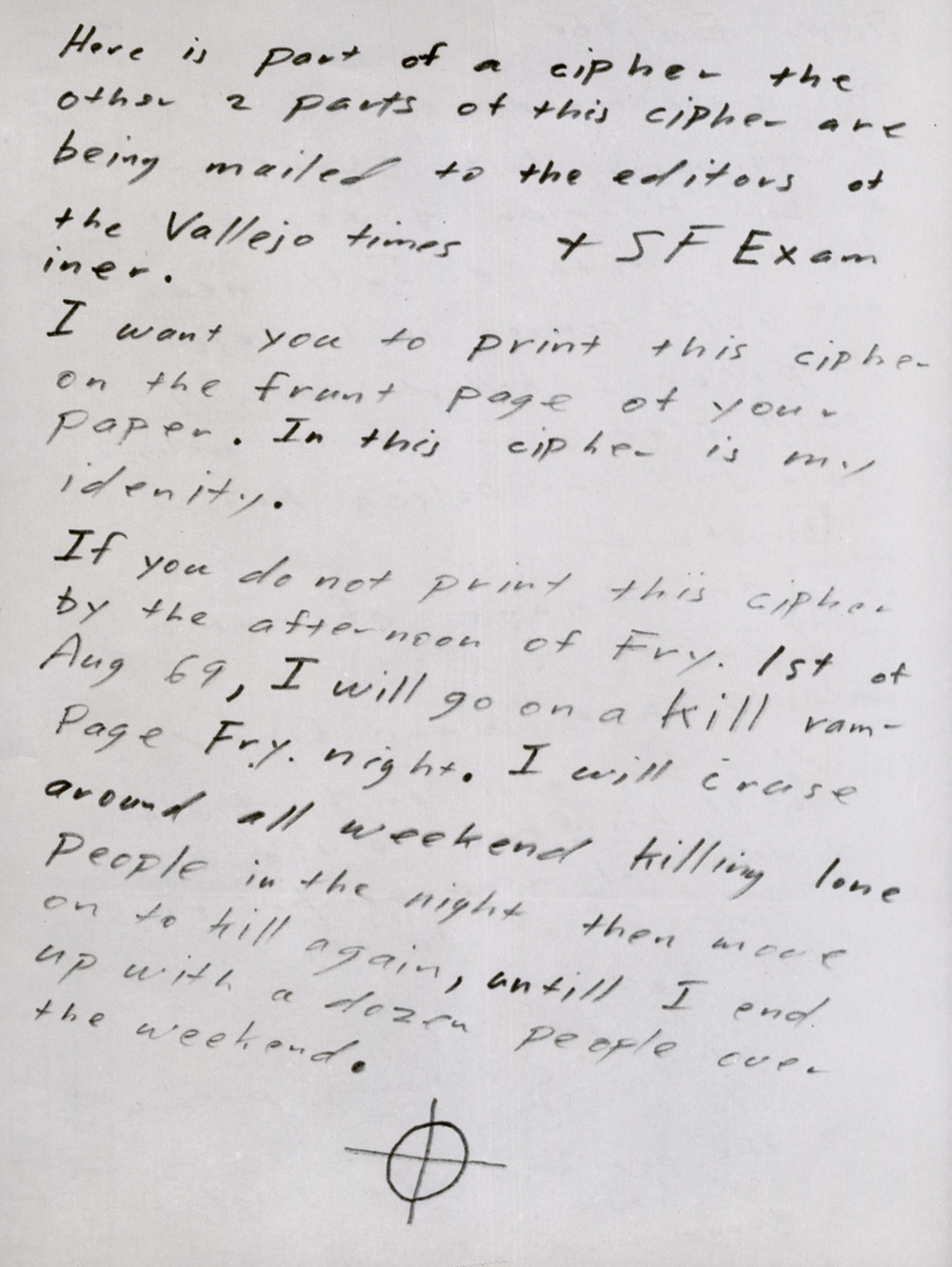 Page 2 of the Zodiac Killer's July 31st 1969 letter to the San Francisco Chronicle, San Francisco Examiner and Vallejo Times